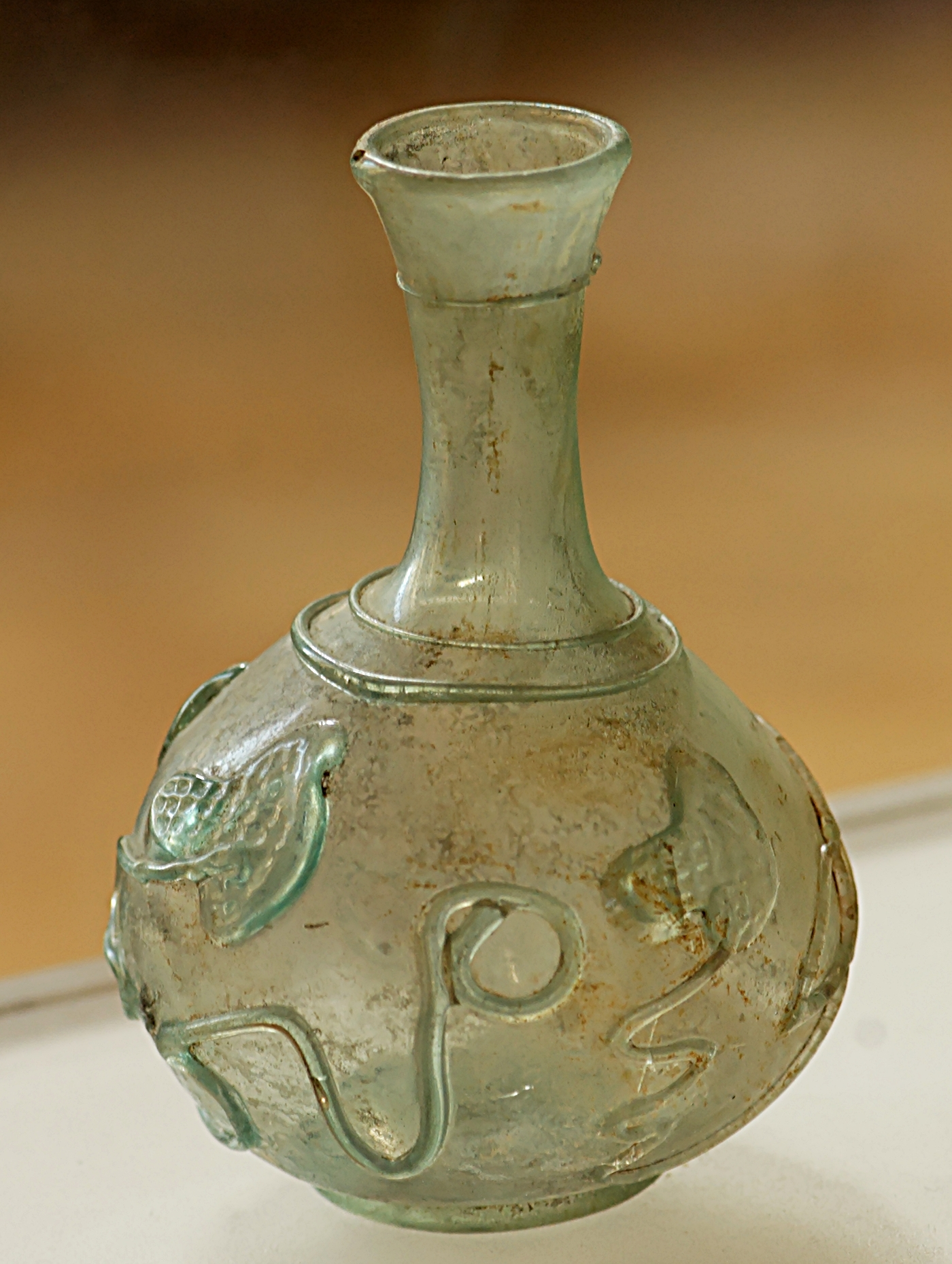 Bottle with ivy leaves decoration.